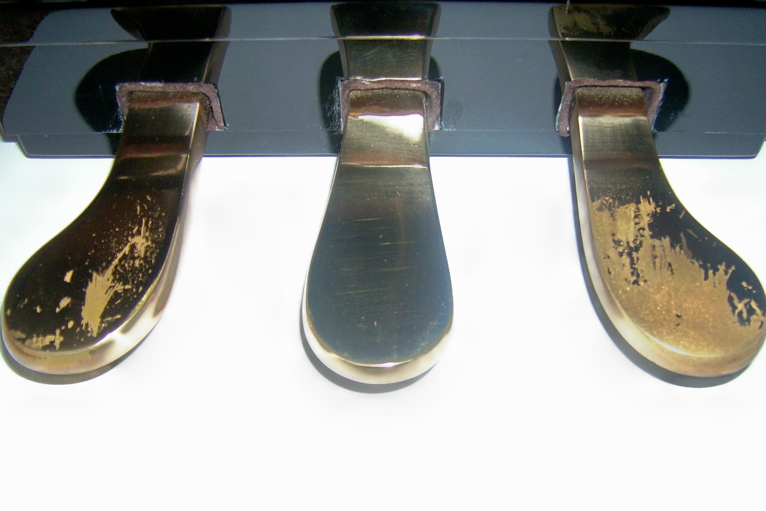 Piano pedals on a Grand Piano.